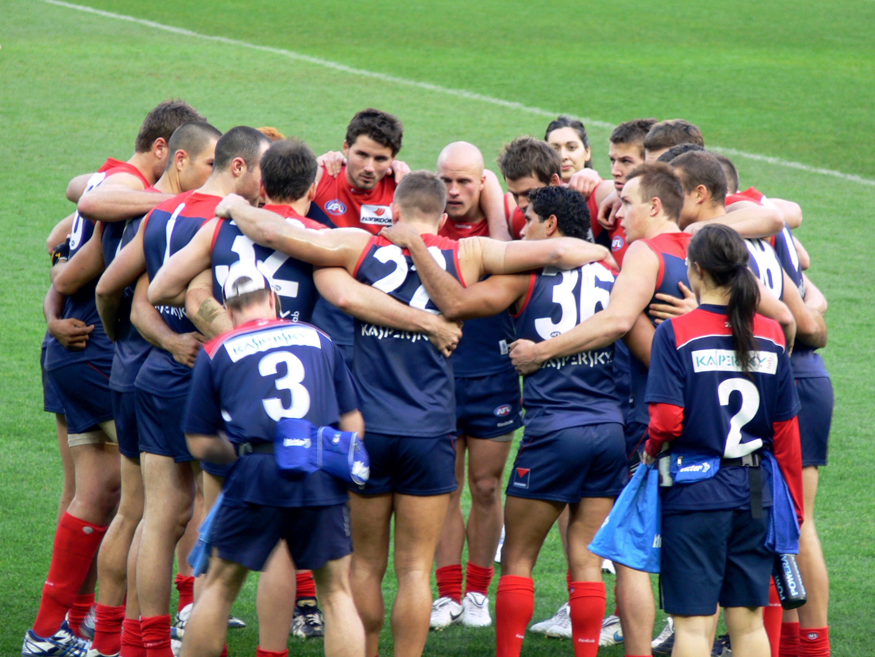 Huddle during an AFL game between the Melburne Demons and Collingwood Magpies 14-06-2010.